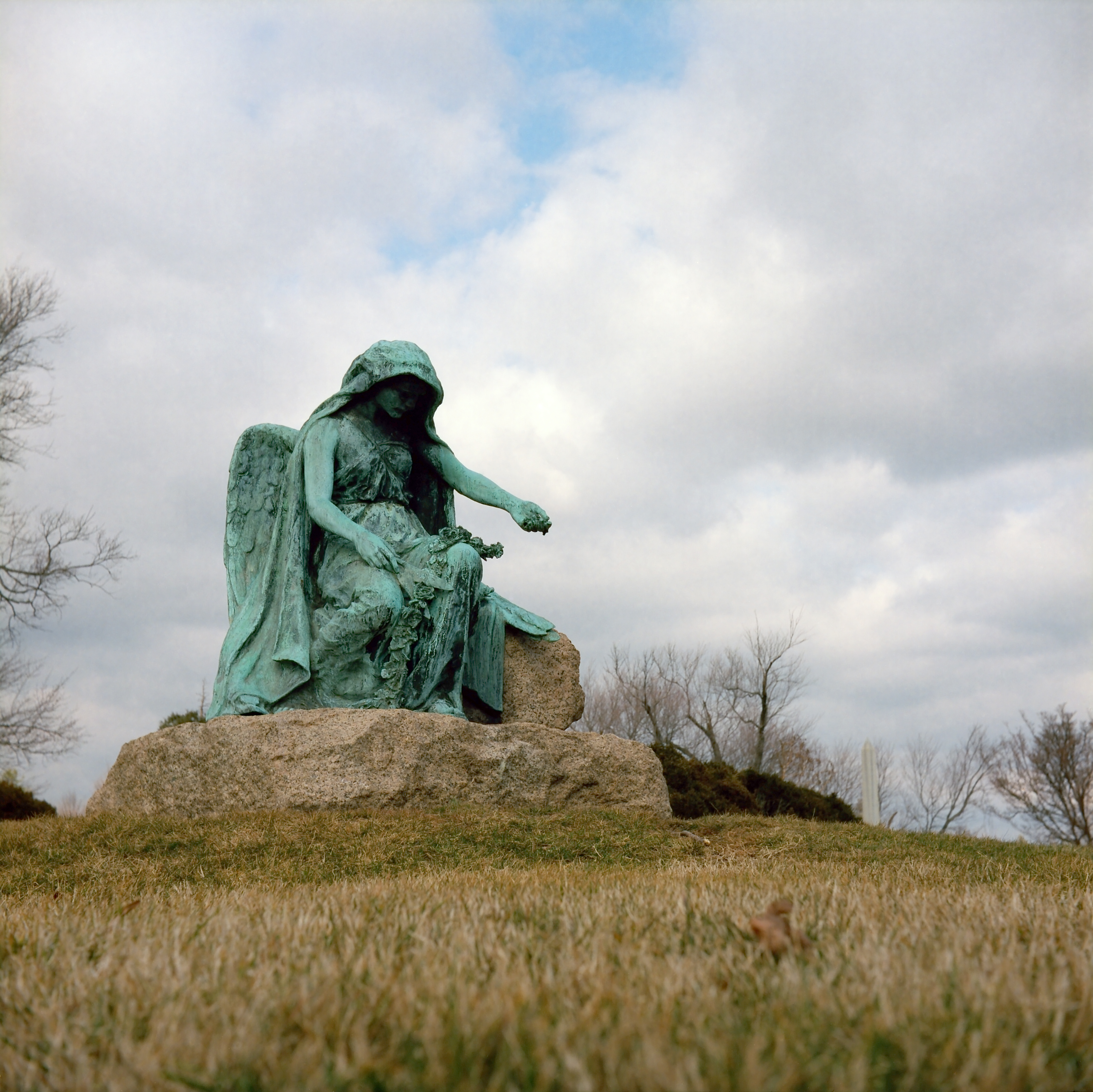 The Second Statue In Druid Ridge that Represents The Greek fate "Clotho"